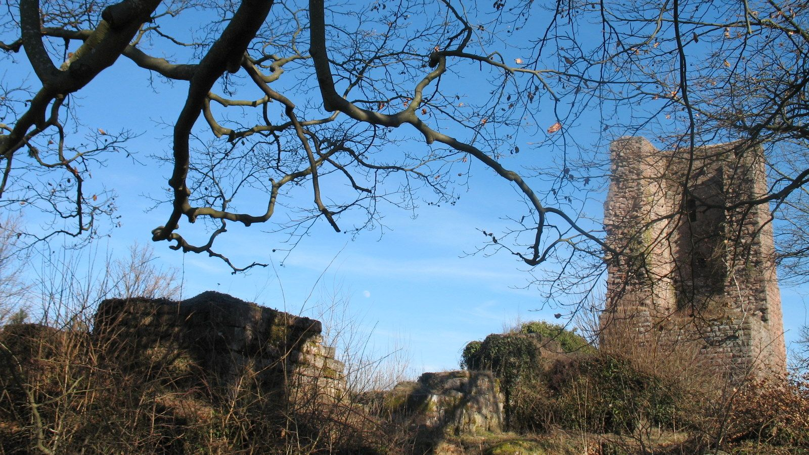 "Grand Geroldseck" castle (looking East)